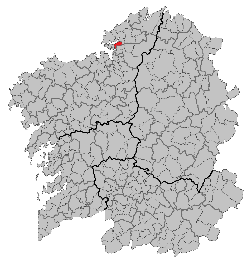 Location map of Fene, A Coruña, Galicia